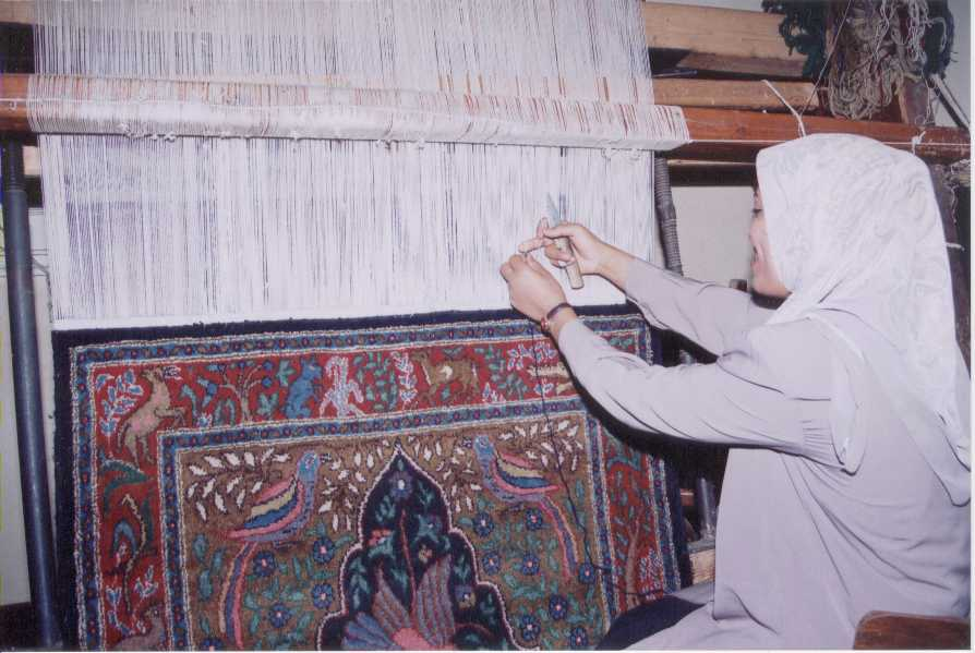 أهم عوامل الجذب السياحي في محافظة أسيوط